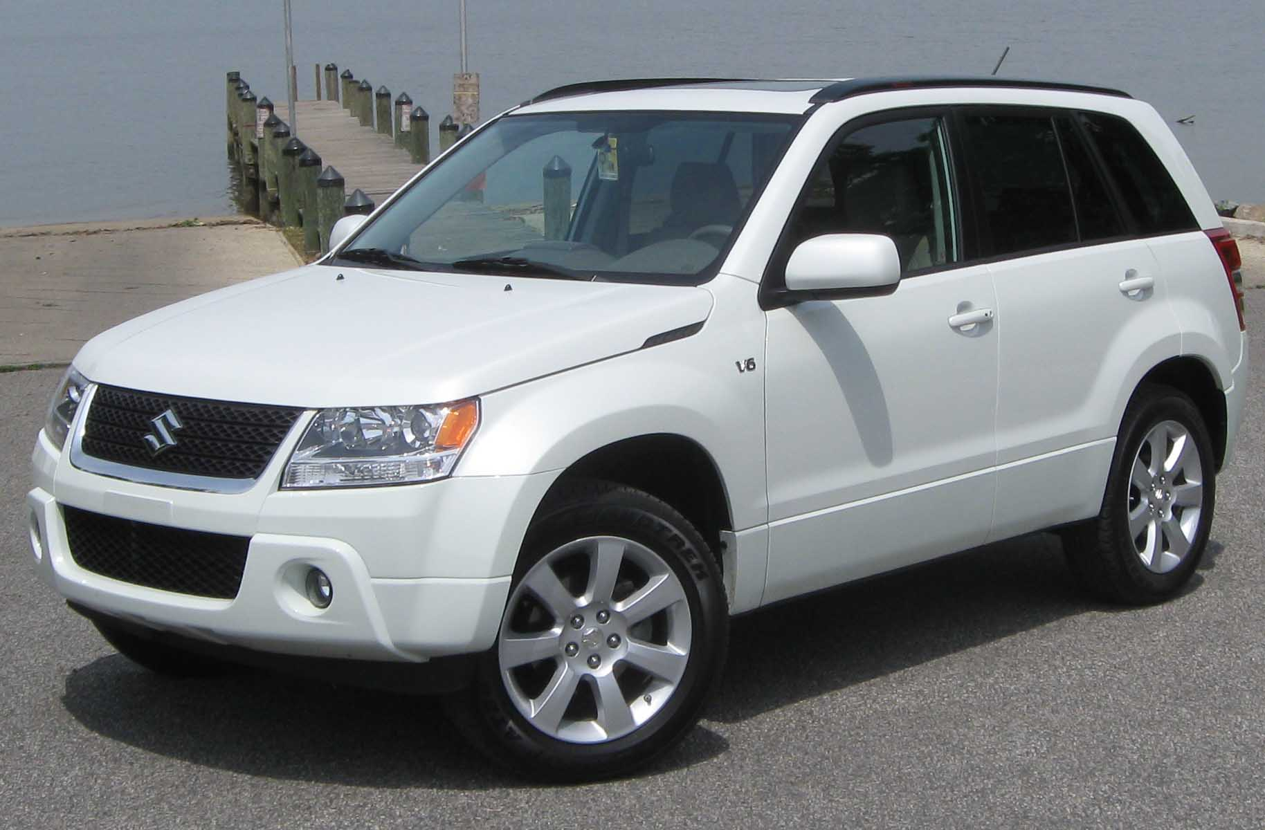 2010 Suzuki Grand Vitara photographed in Marshall Hall, Maryland, USA.